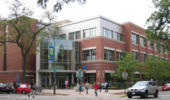 The Student Center on the Lincoln Park Campus of DePaul University, opened in 2002, contains student services, dining facilities, a cyber cafe and offices for organizations ranging from special-interest clubs to the Cultural Center.